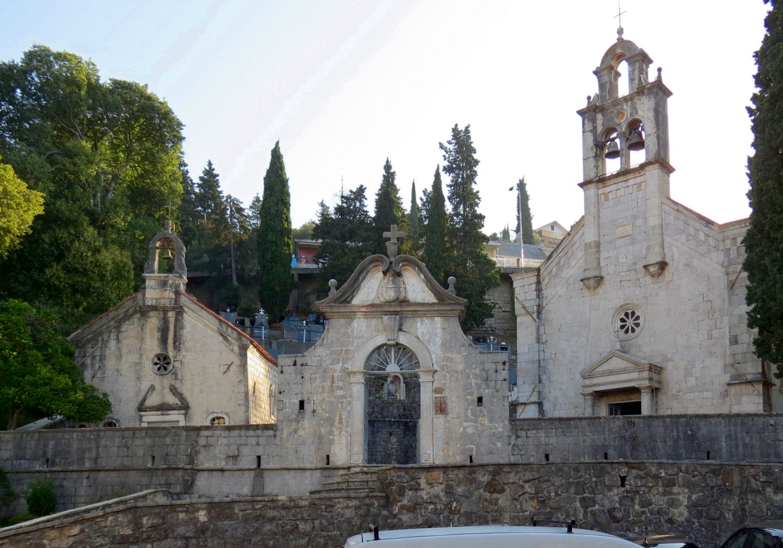 Herceg - Novi, old town